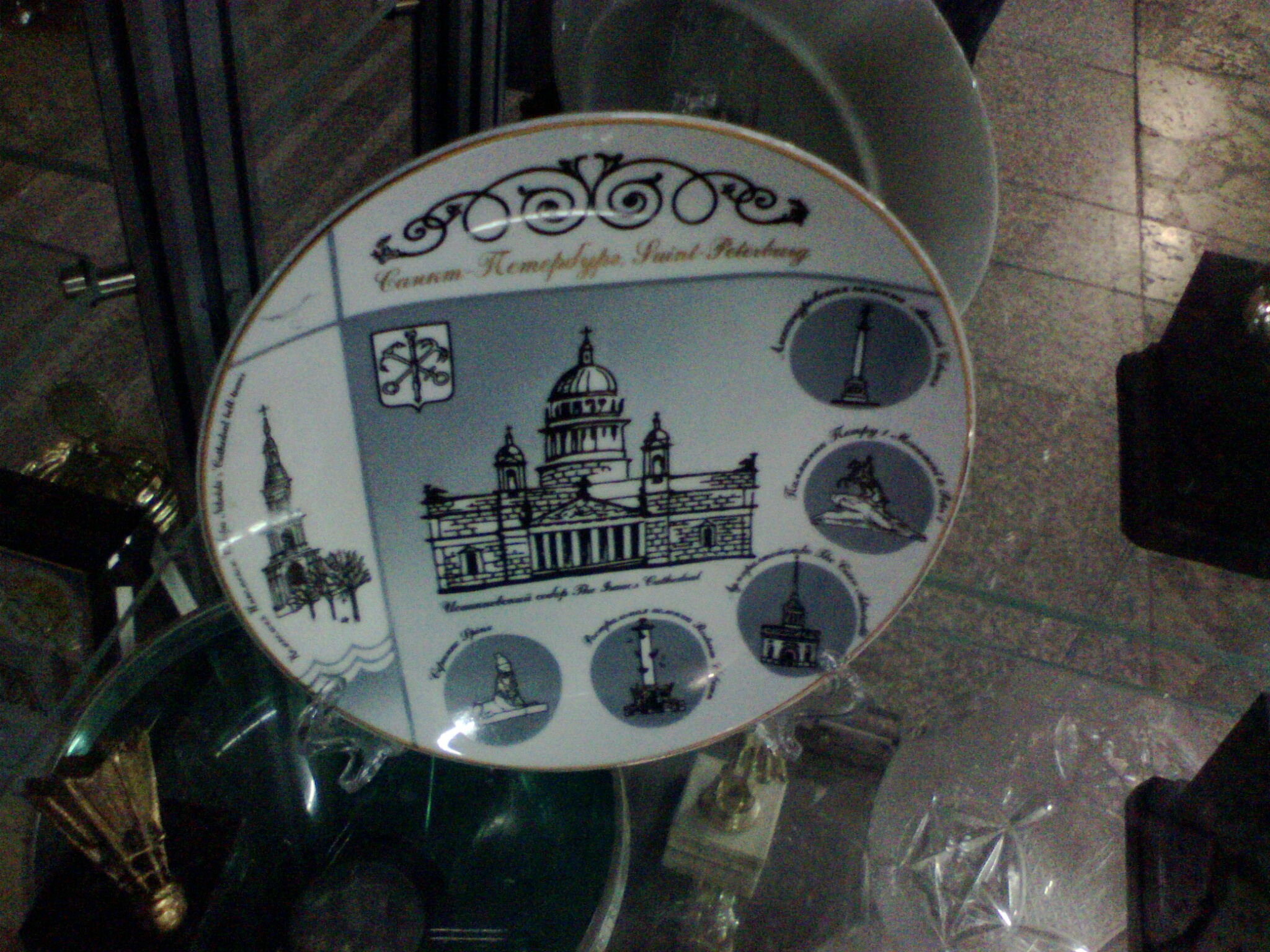 Plates with a picture on it Issakievskogo cathedral. Located in the gallery awards HPI Sports Palace.